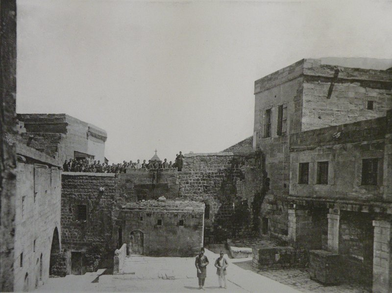 Saint Garabed Monastery in Kayseri